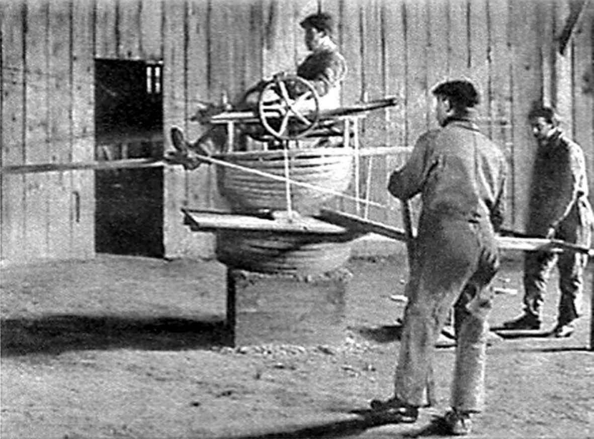 Training rig for Antoinette aircraft